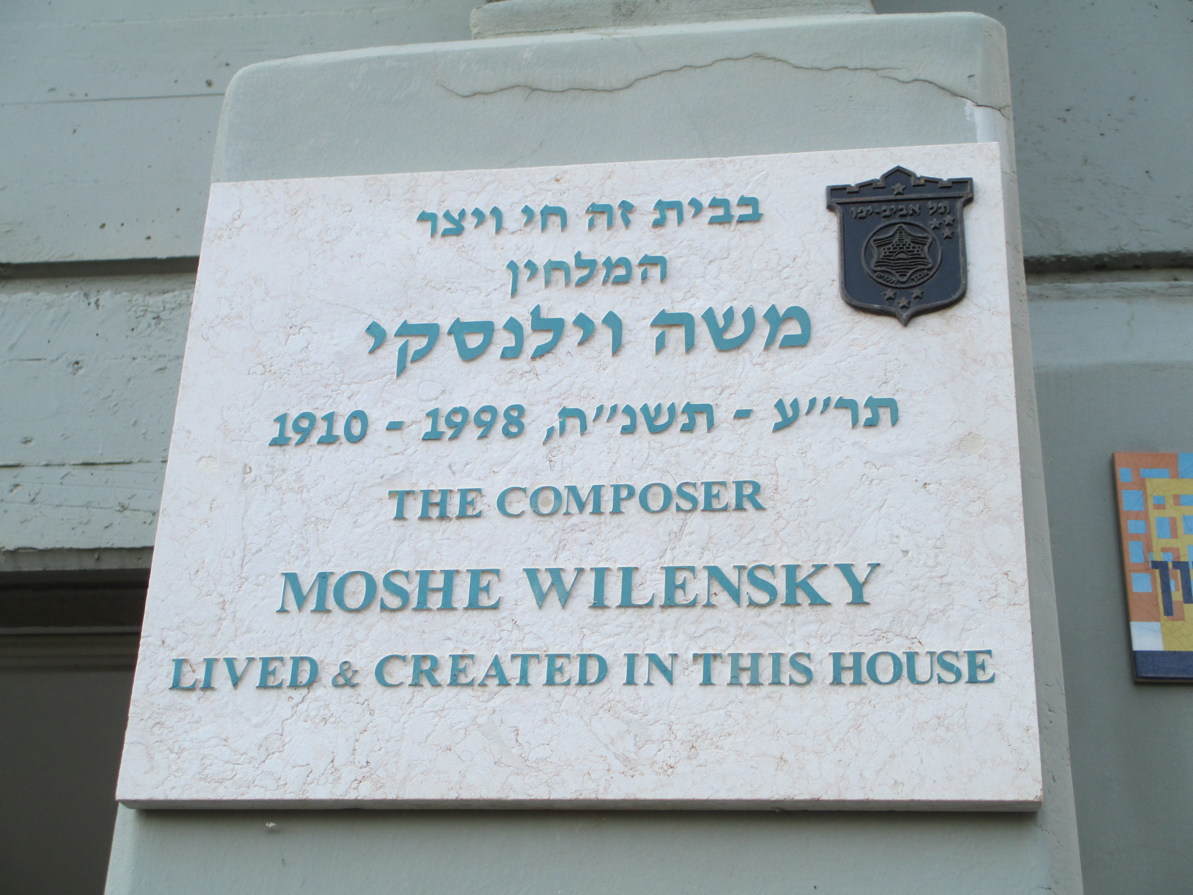 memorial plaque on the composer moshe wilensky house in tel aviv לוחית זיכרון על ביתו של המלחין משה וילנסקי ברח' פנקס 42 בתל אביב